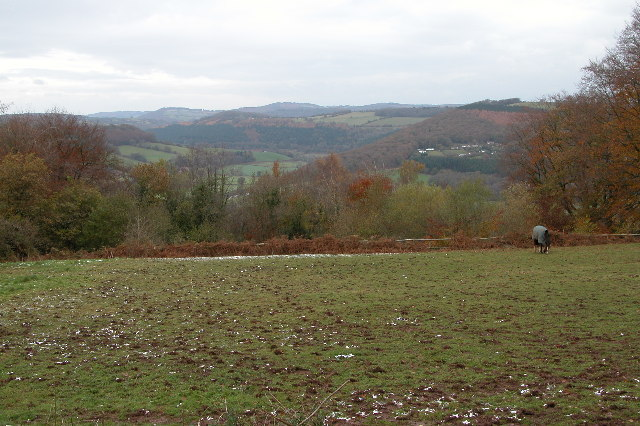 The Wye Valley viewed from The Hudnalls. View north up the Wye Valley from Offa's Dyke path at Hudnalls.